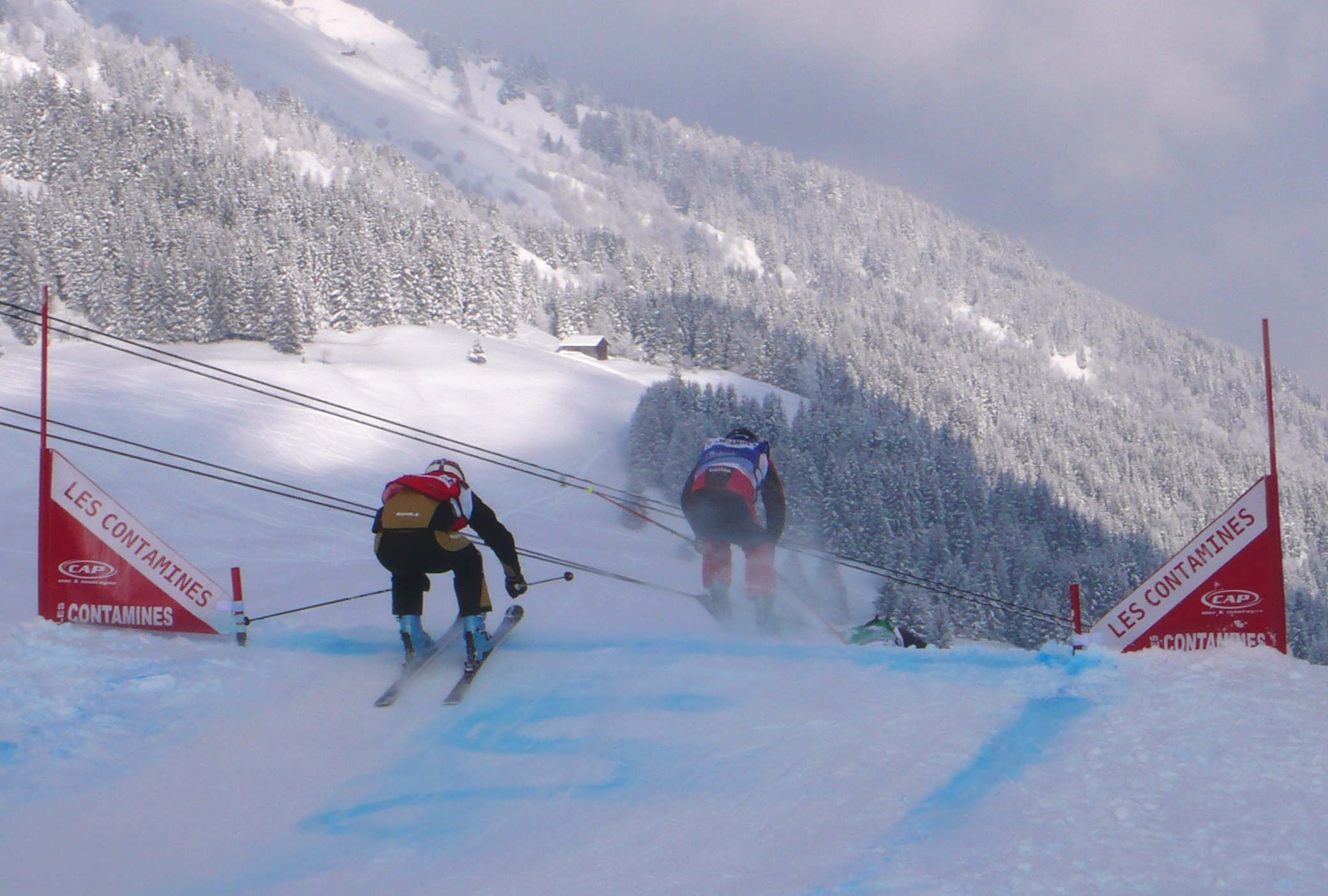 Ski Cross World Cup at Les Contamines-Montjoie, final: Stanley Hayer, Xavier Kuhn.